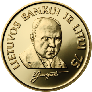 1 litas gold coin issued to mark the 75th Anniversary of the Bank of Lithuania and the litas Gold Au 999.9 Diameter 22.30 mm Weight 7.78 g Edge of coin rimmed at intervals The designer of the coin is Rimantas Eidejus Mintage 1,500 pcs Issued 1997 Distributed 1,500 pcs The coin was minted at the state enterprise Lithuanian Mint.